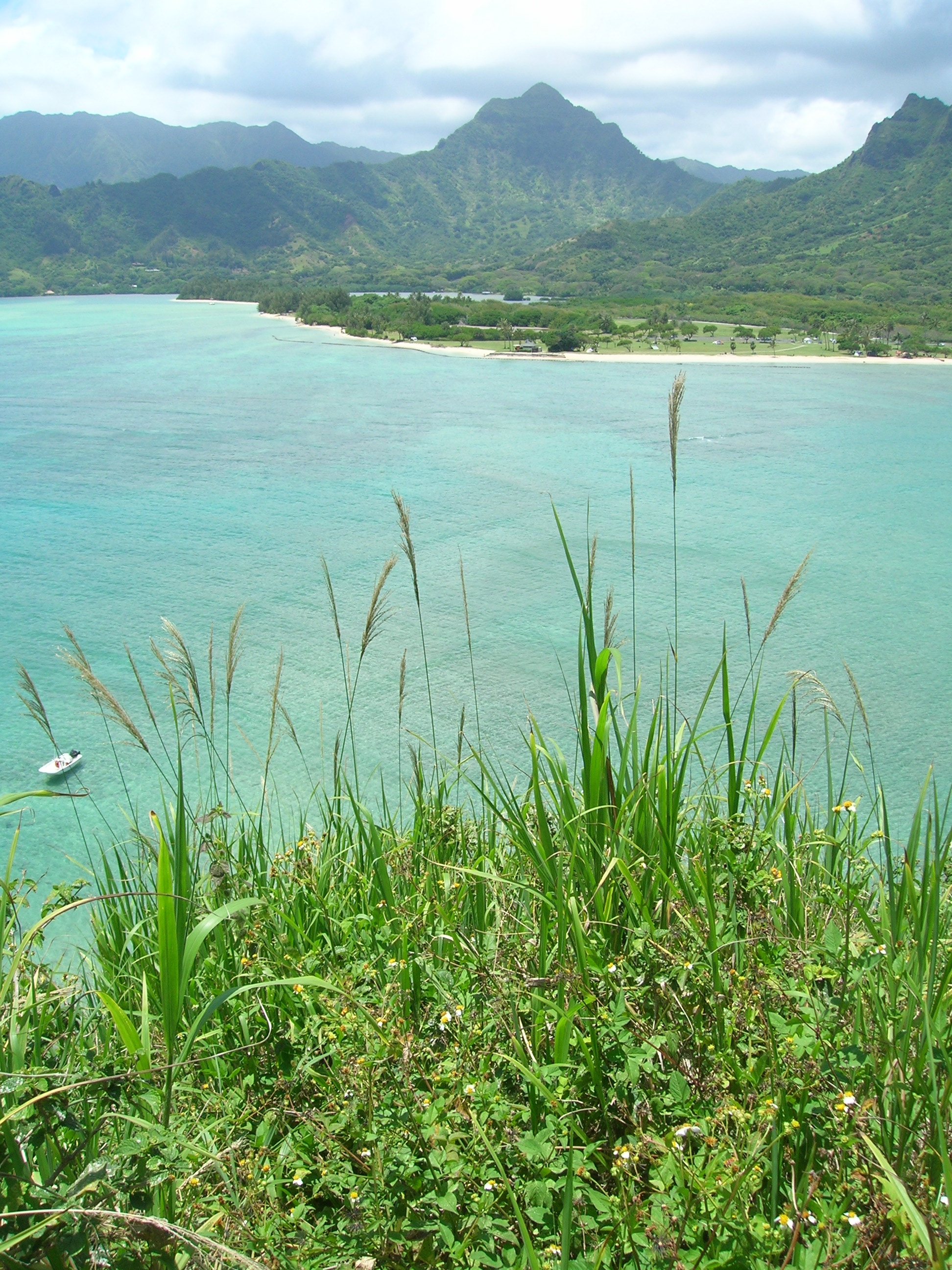 Digitaria insularis (habit). Location: Oahu, Mokolii